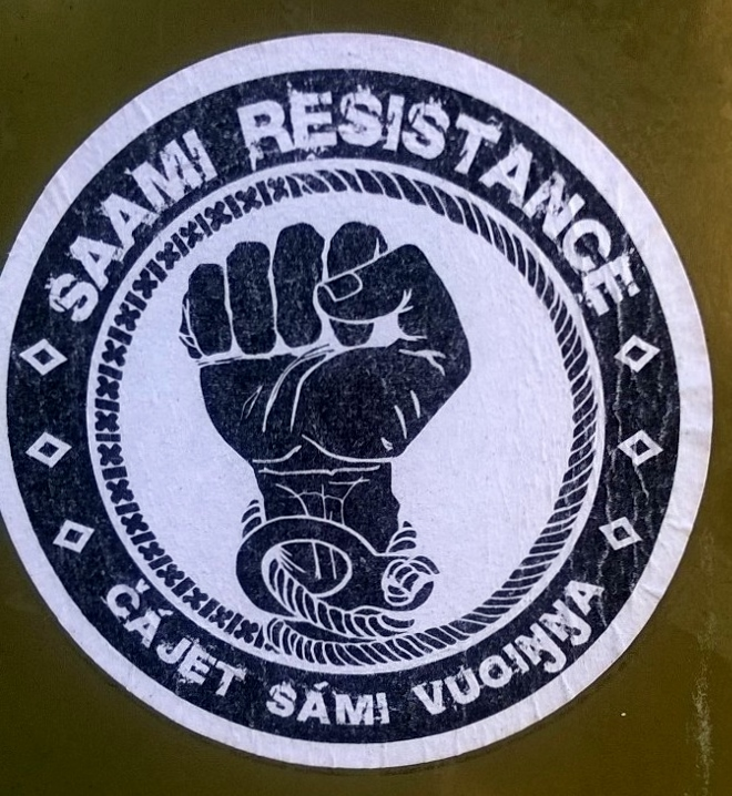 Show Your Sámi Spirit